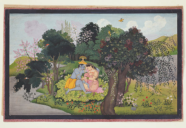 Museum Reitberg, Zurich, First Genereration after Nainsukh, see [1]